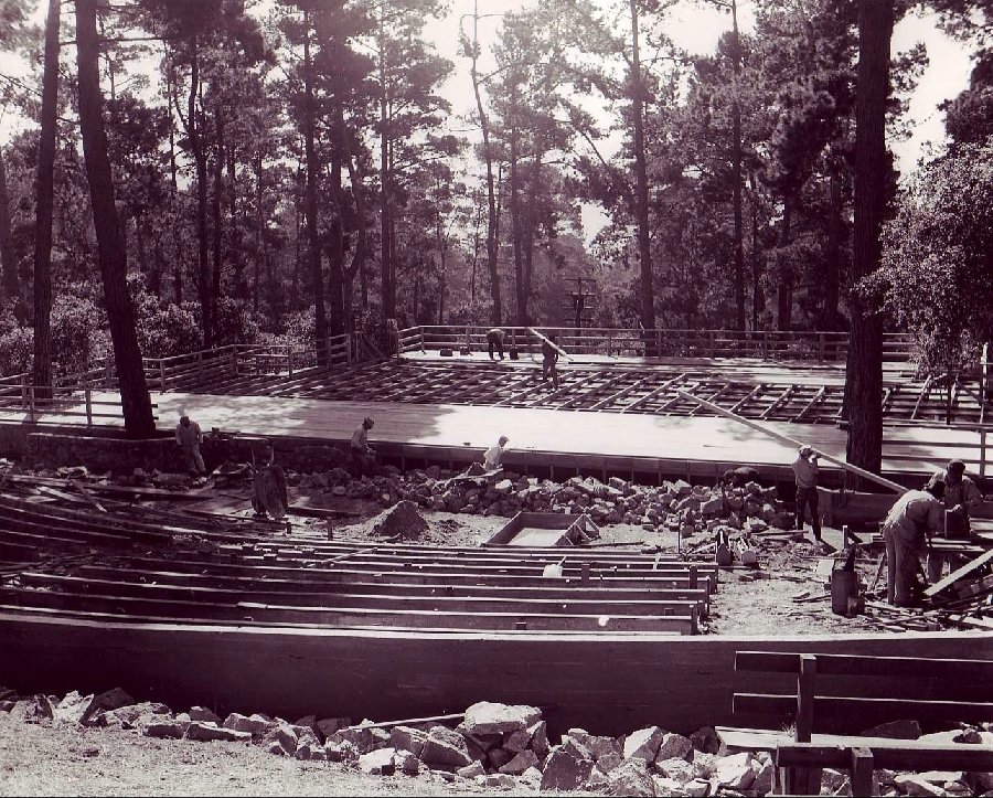 WPA workers rebuild the Forest Theatre in 1939. Monterey County, California.